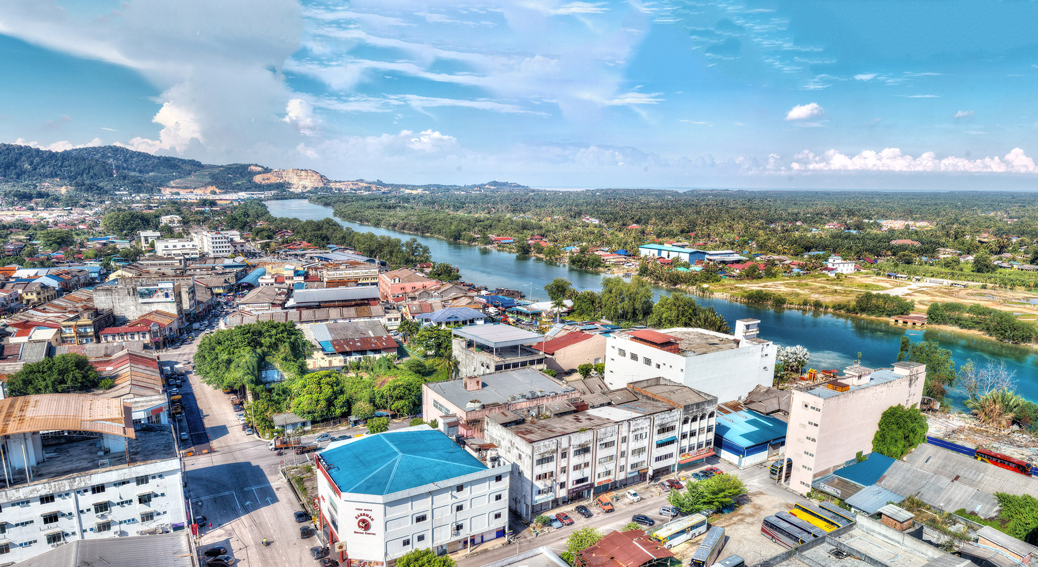 Batu Pahat River